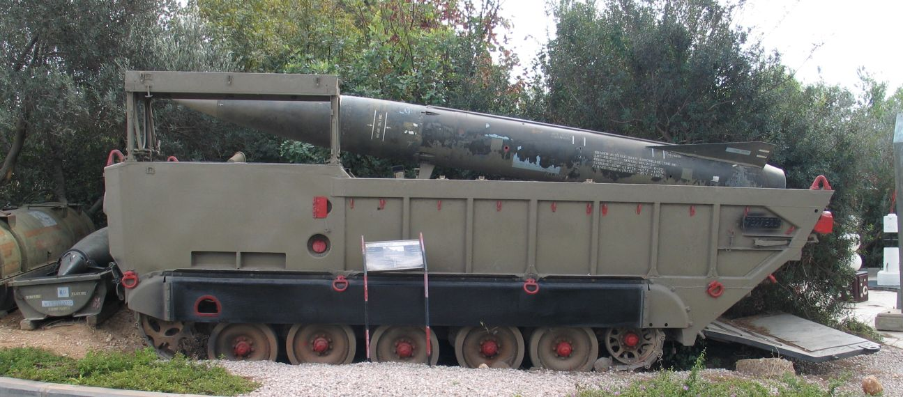 Description: M752 Lance Missile Launcher (based on M667 Lance Missile Carrier on M113 APC chassis) in Beyt ha-Totchan, Zichron Yaakov, Israel. Source: Photo by me, User:Bukvoed.